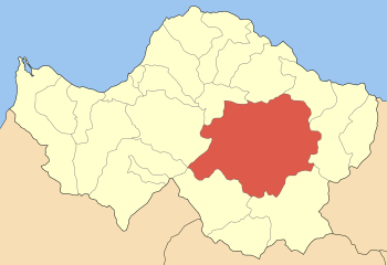 Locator map of Kalavrita municipality (Δήμος Καλαβρύτων) in Achaia perfecture (Νομός Αχαΐας) in Greece.